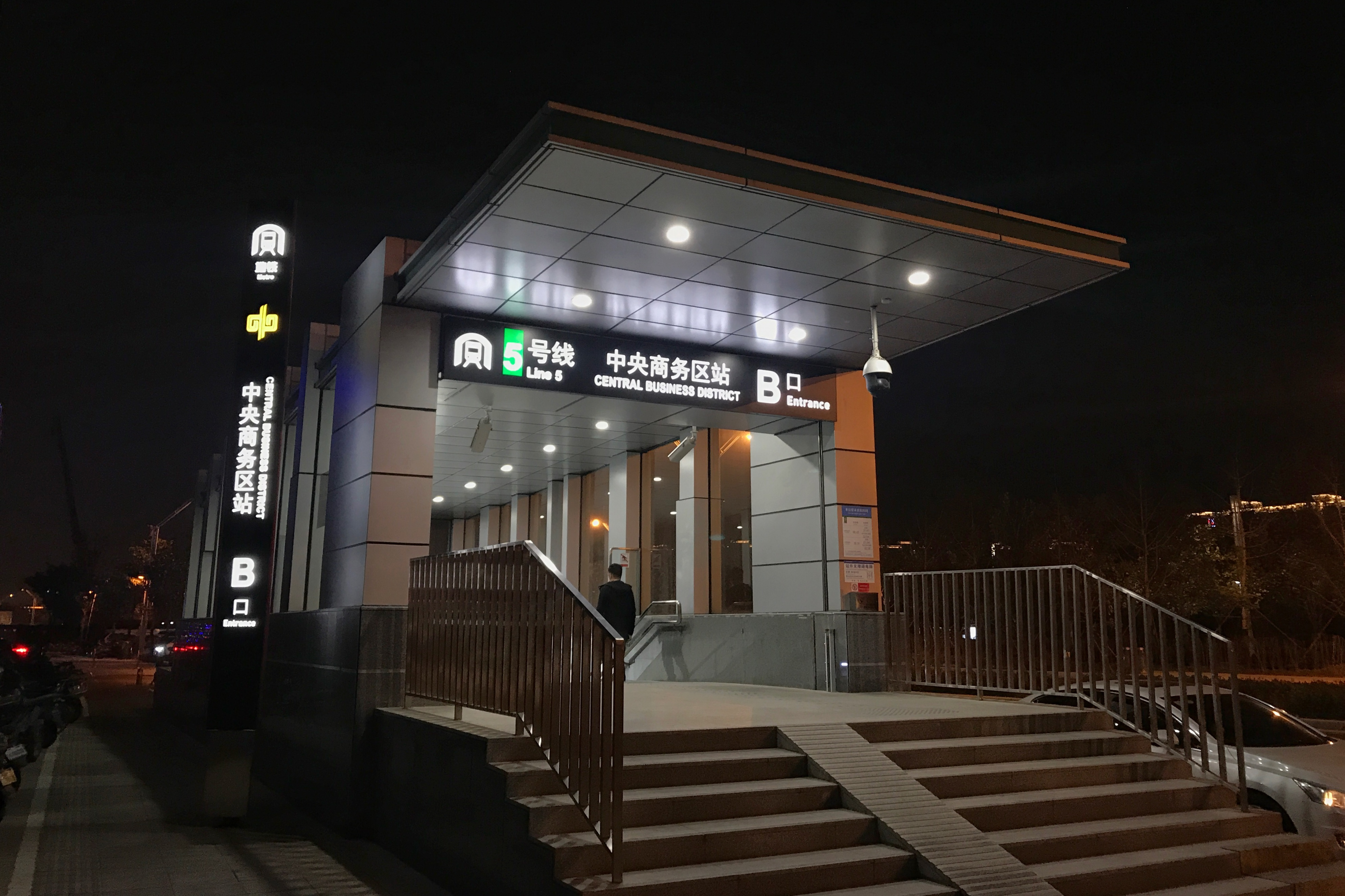 Exit B of CBD Station